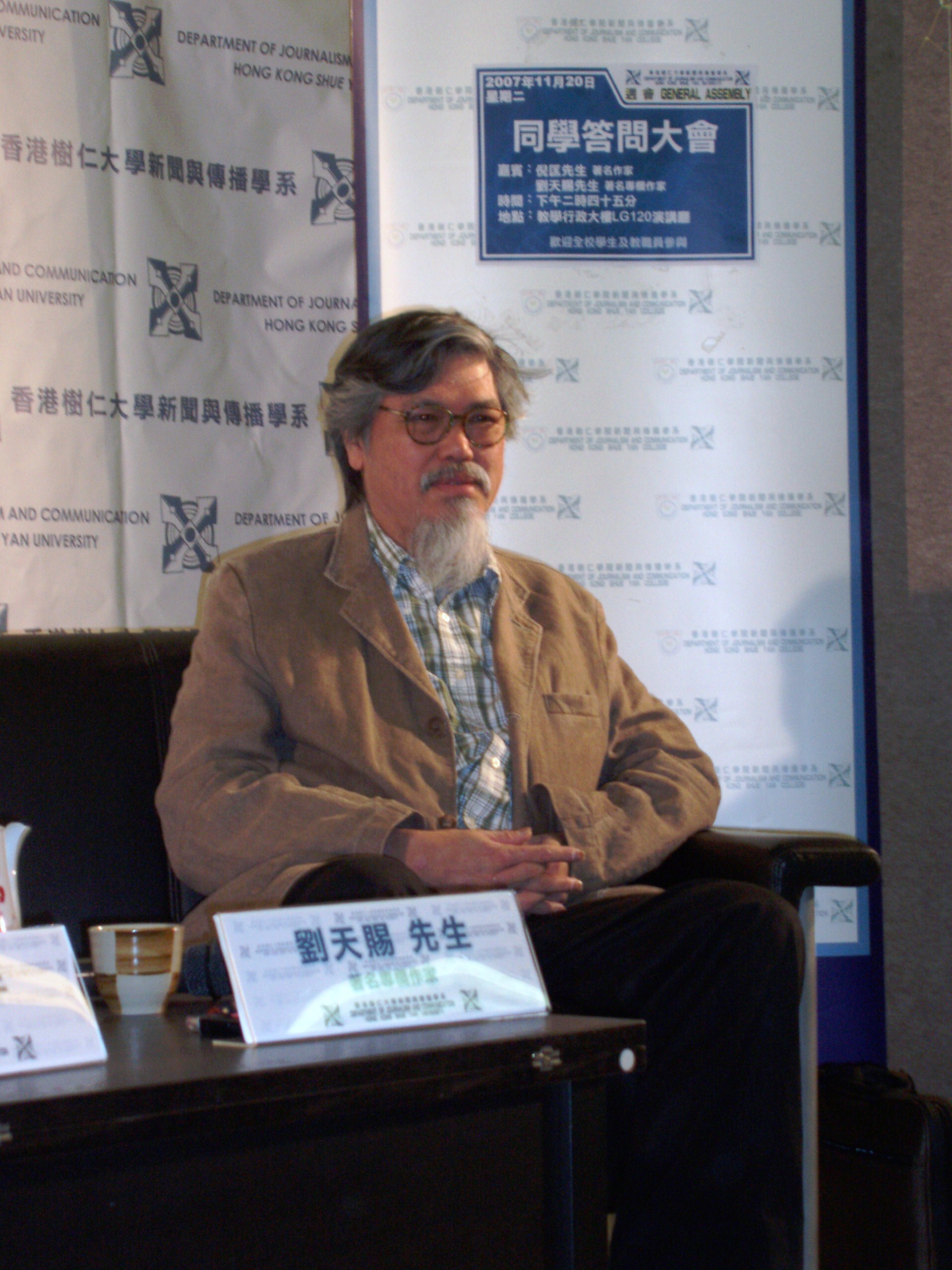 Mr LAU Tin Chi at General Assembly of Journalism & Communication Department, Hong Kong Shue Yan University